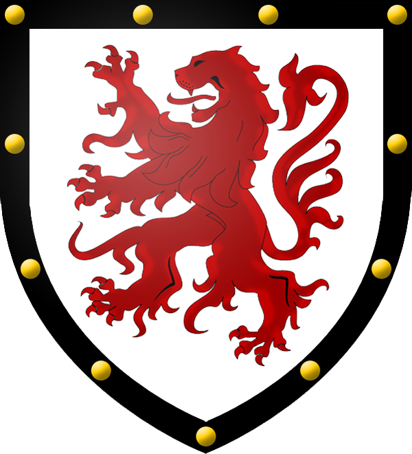 Poitou Arms.